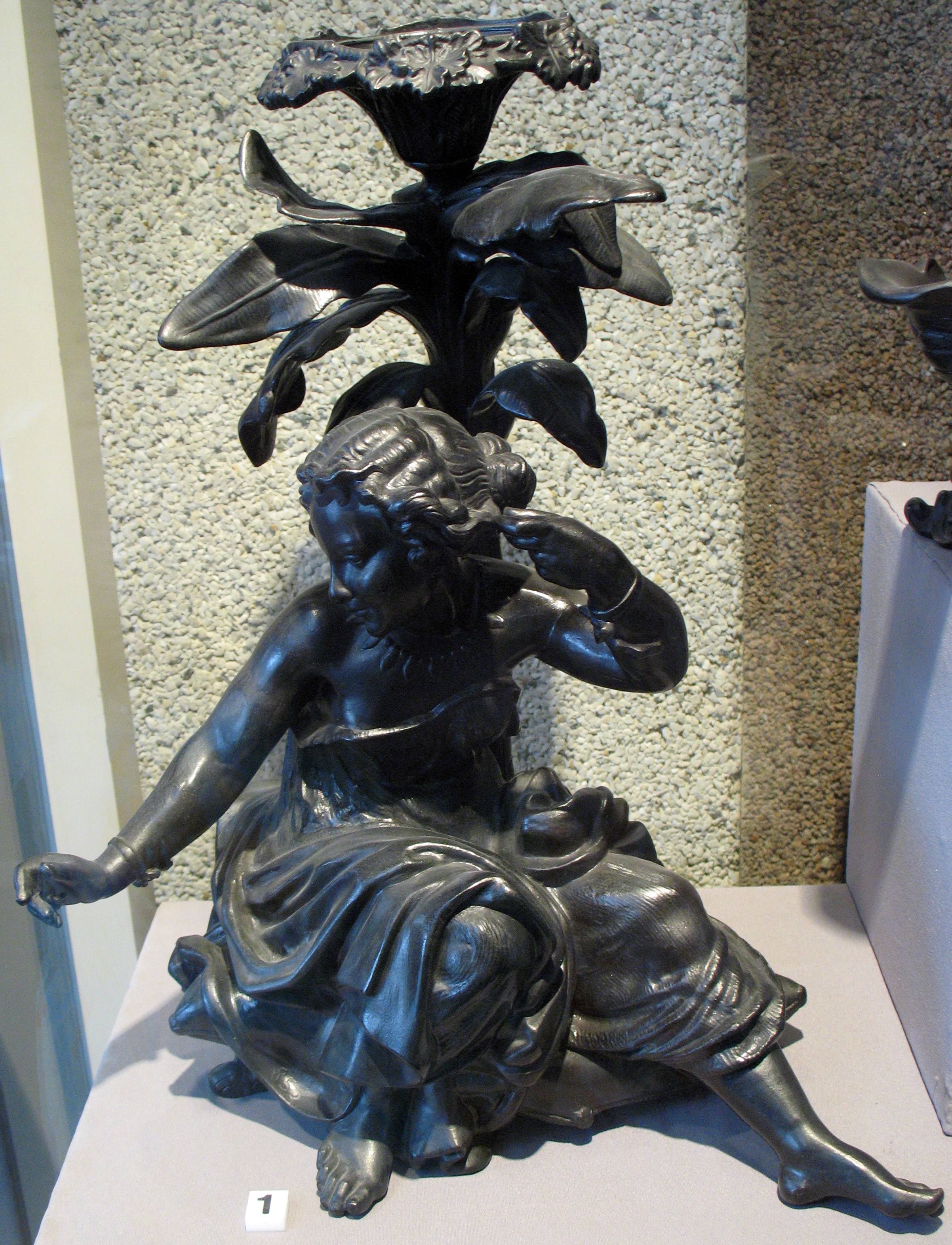 S.A. Ossovskaya: The Caucasian captive, 1901